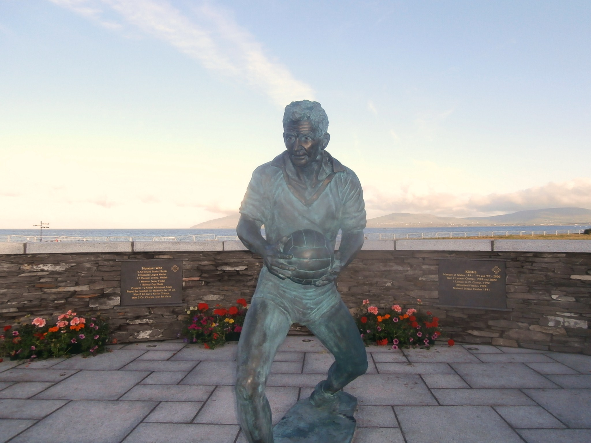 This picture was taken just half a day after Mick O'Dwyer's statue was unveiled in Waterville. 6.44 a.m. Sunday, June 24th 2012. Sculptor: Alan Hall